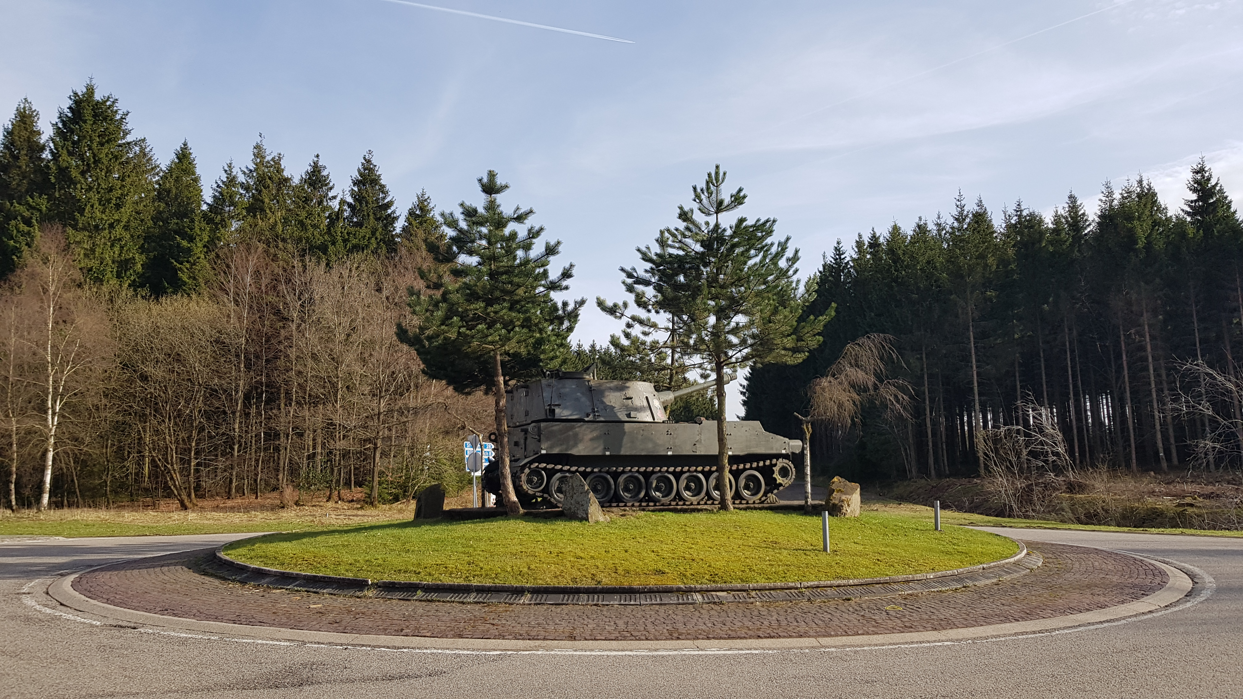 M108 howitzer, Elsenborn, Bütgenbach, Belgium